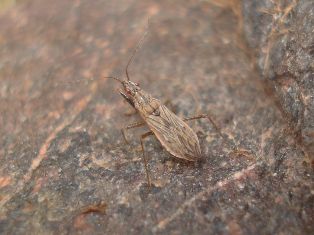 Nabis rugosus